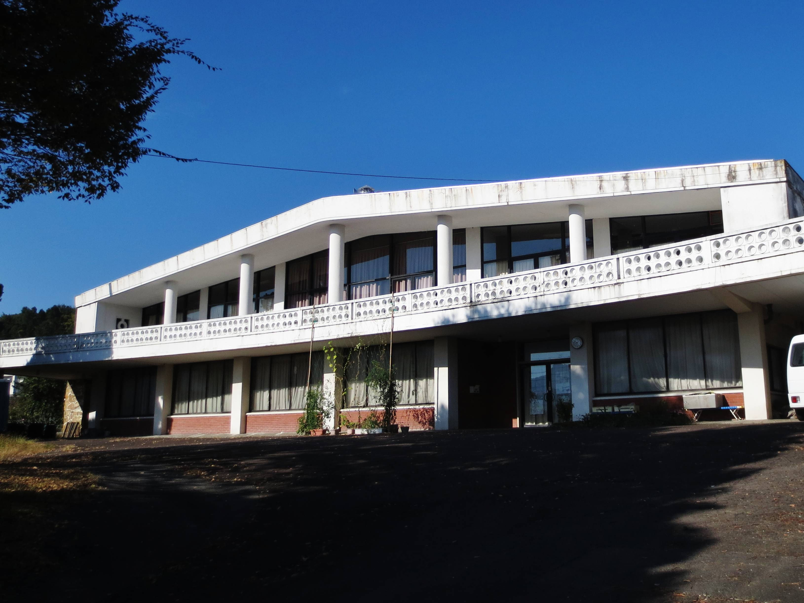 Former Matsuida town office.